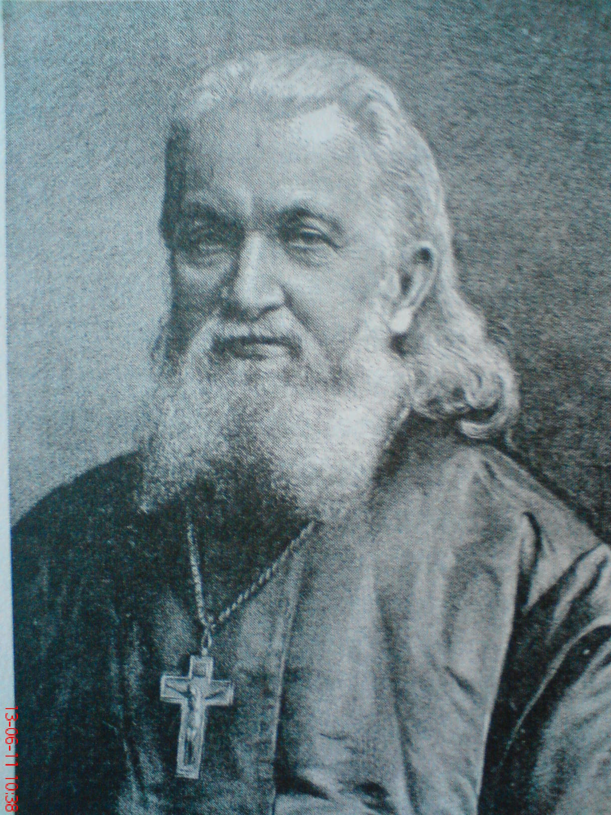 Iwan Naumovitsch, a Greek-Catholic priest and one of the leader of russophile movement in Galizia